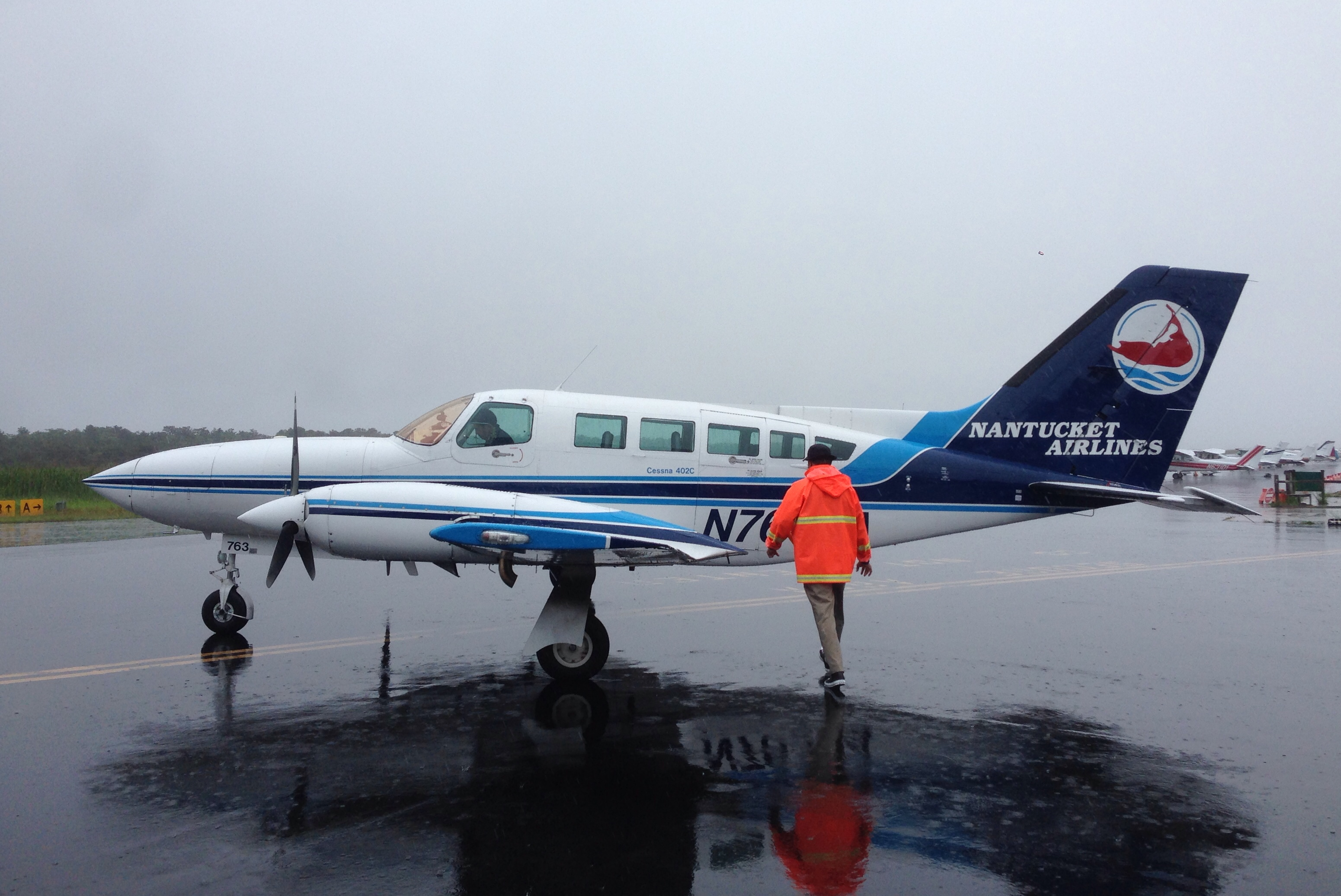 Nantucket Airlines Cessna 402C II (N763EA) at Provincetown Municipal Airport